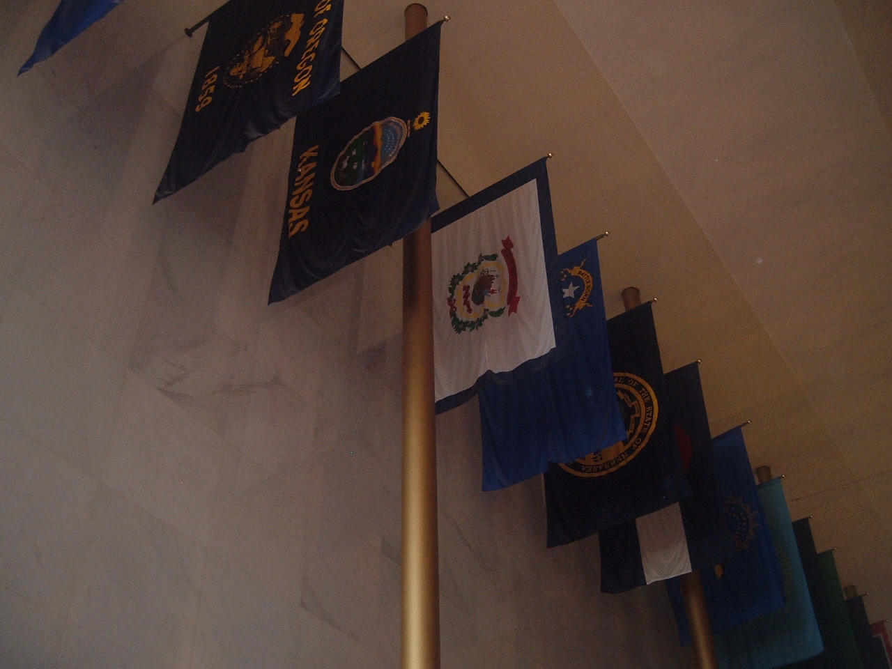 The Hall of States inside the John F. Kennedy Center for the Performing Arts.